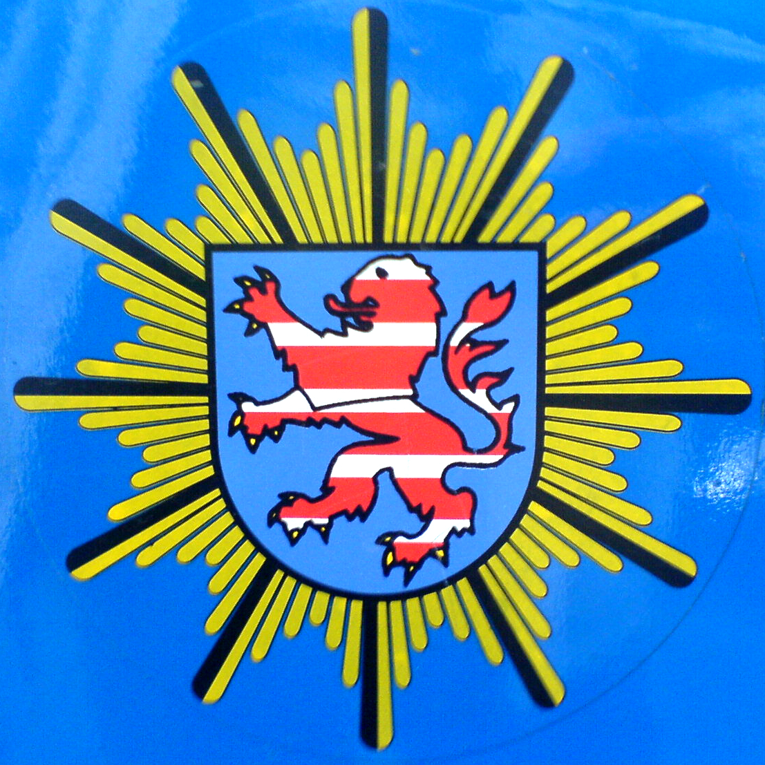 Hesse State Police, seen on a Police car